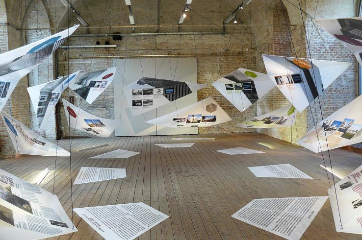 ArchitekturZentrum Vienna - part of exchibition.